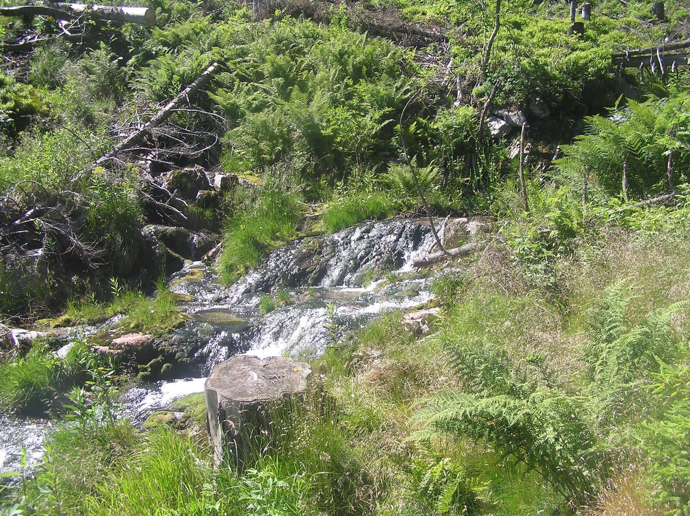 Prudký potok, Králický Sněžník Mountains, Czech Republic